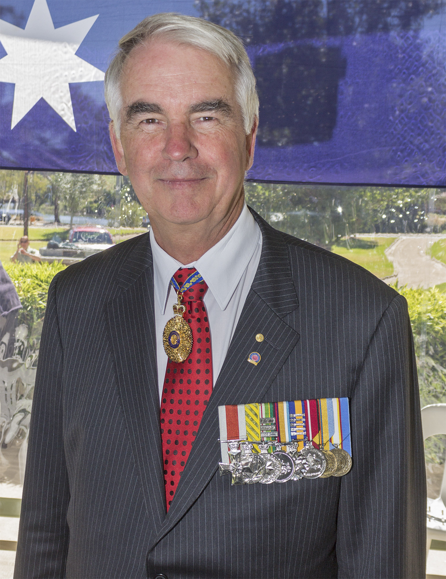 Lieutenant General Ken Gillespie, AC, DSC, CSM (Ret'd) at the Centenary of the Kangaroo March launch.